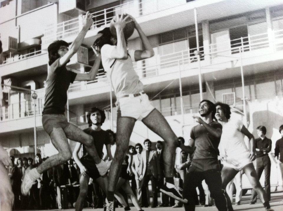 NIOC Faculty of Accounting and Financial Sciences Basketball Game